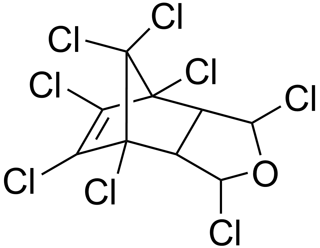 Chemical structure of isobenzan (telodrin)